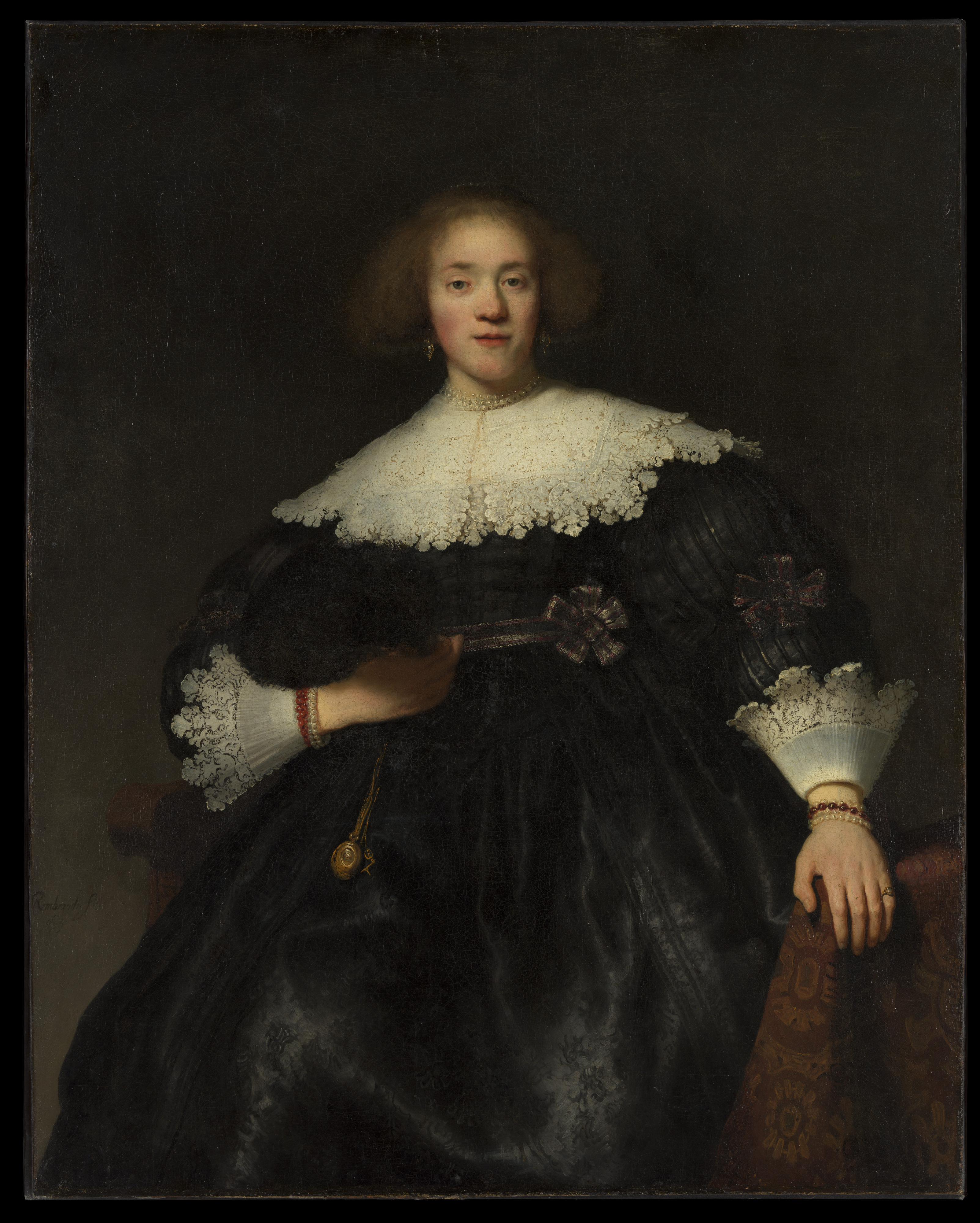 Pendant of File:Rembrandt - Portrait of a Man Rising from his Chair - 1633.jpg